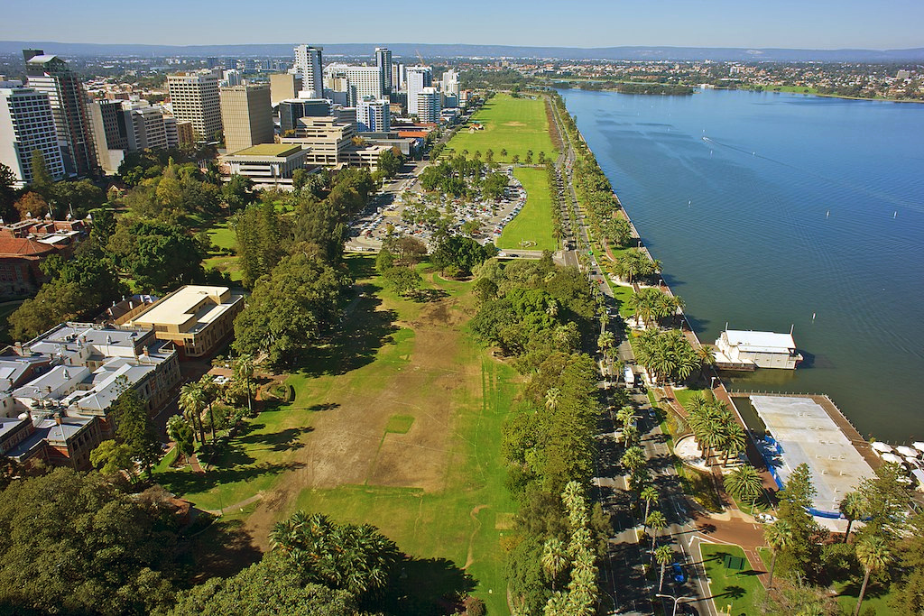 Aerial photograph of Langley Park, Perth, Western Australia taken using a COPTERCAM 8 aerial camera system. From 120m using a COPTERCAM 8 aerial camera system.